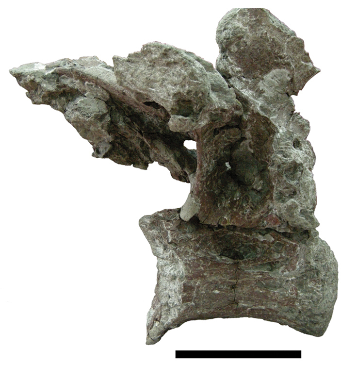 Paludititan nalatzensis (UBB NVM1-43), Maastrichtian, Haţeg Basin, Romania. Scale bar equals 10 cm.